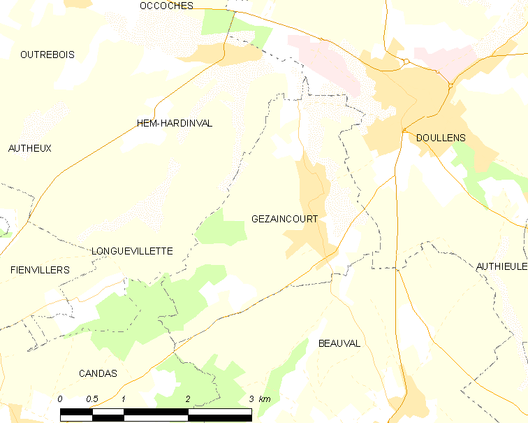 Map of French municipality Gézaincourt